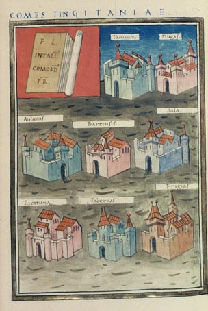 Comes Tingitaniae from Notitia dignitatum